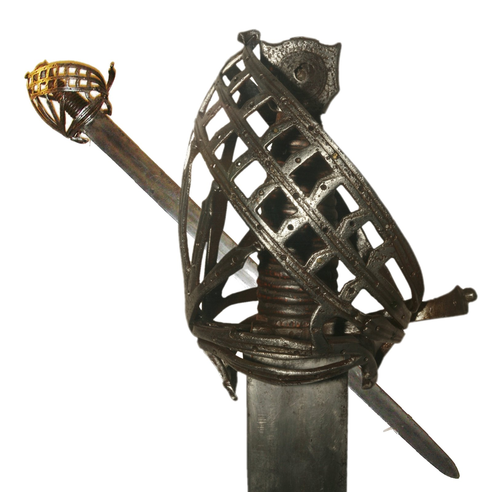 Venitian Schiavona, late 17th Century